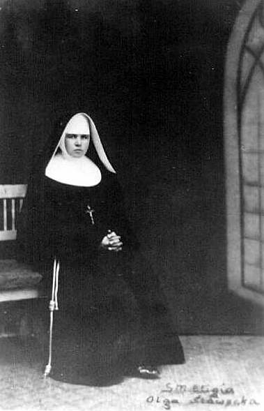 Leopoldyna Stawecka (Maria Eligia) in a habit.